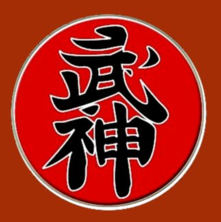 The symbol representing the Bujinkan School